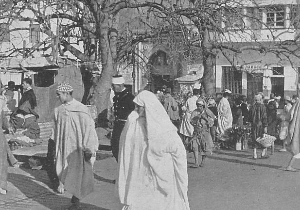 Tangier in 1930s